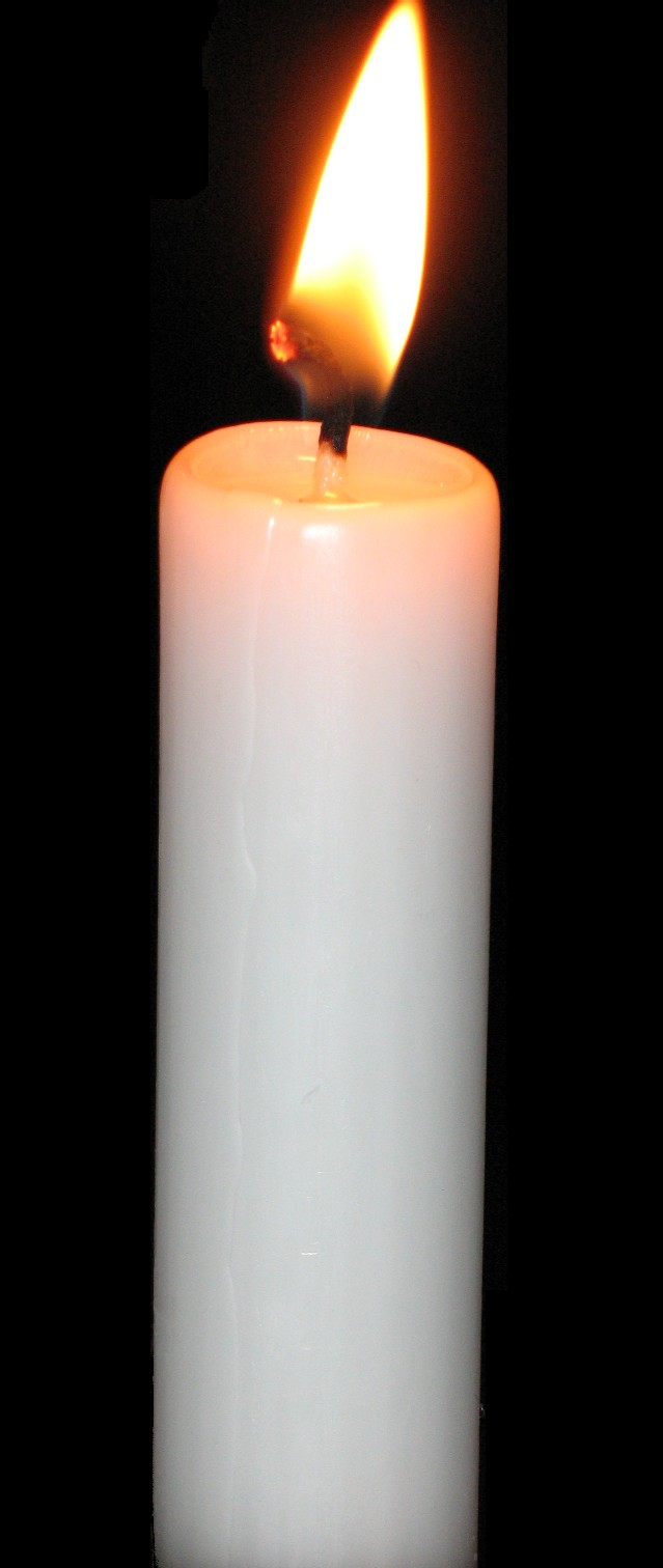 a candle, black background